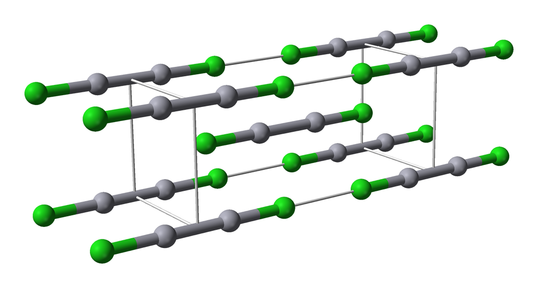 Ball-and-stick model of the unit cell of calomel, mercury(I) chloride, Hg2Cl2. Structural data from the CrystalMaker 8.1 structure library, originally from Calos N J, Kennard C H L, Davis R L (1989) Zeitschrift für Kristallographie 187:305-.